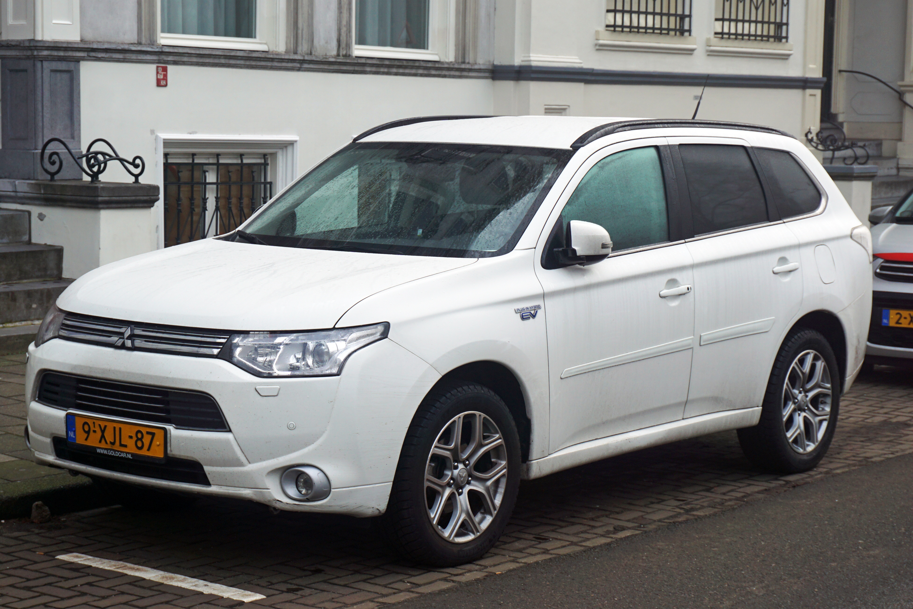 Mitsubishi Outlander PHEV in Amsterdam